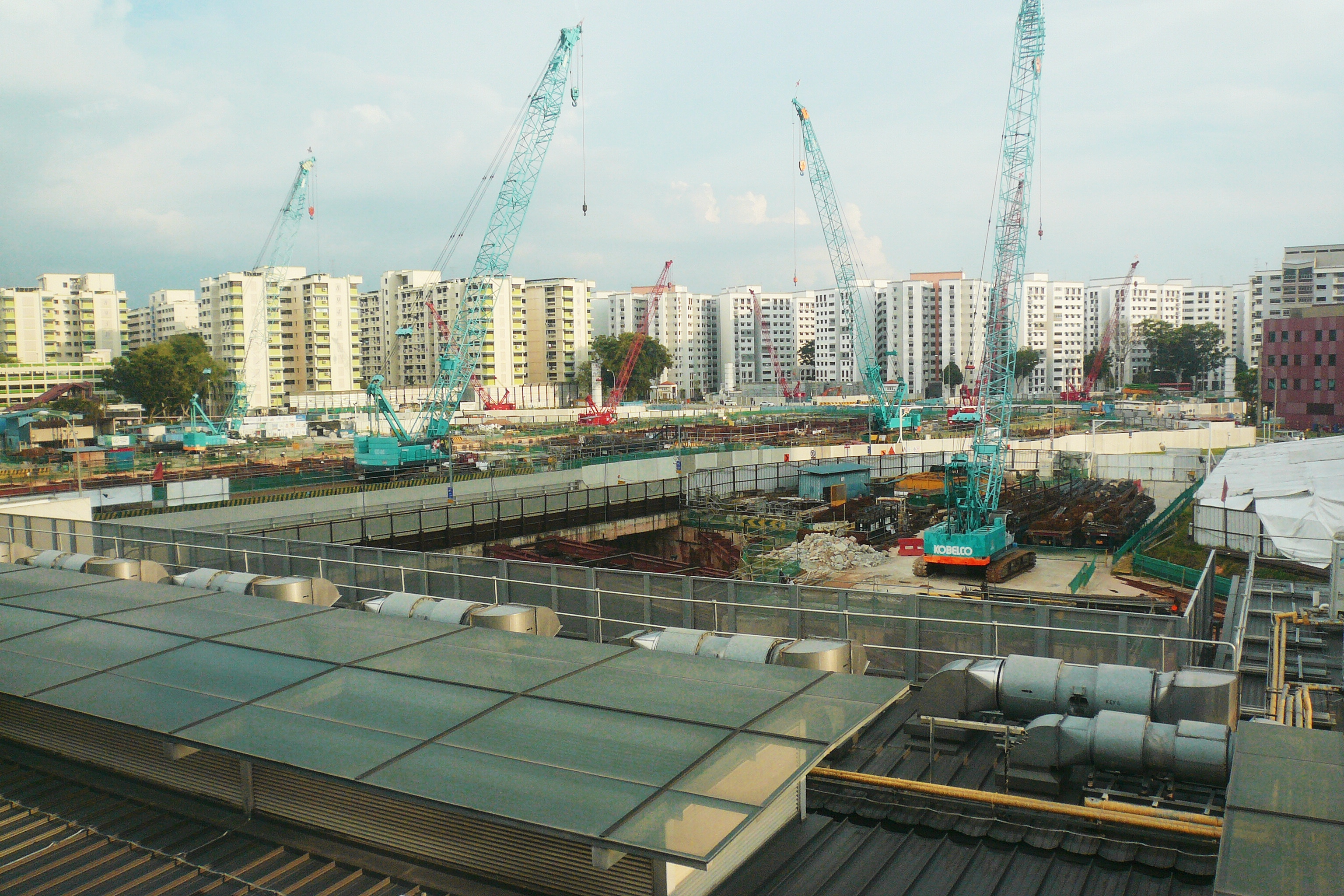 Woodlands MRT TEL Under Construction